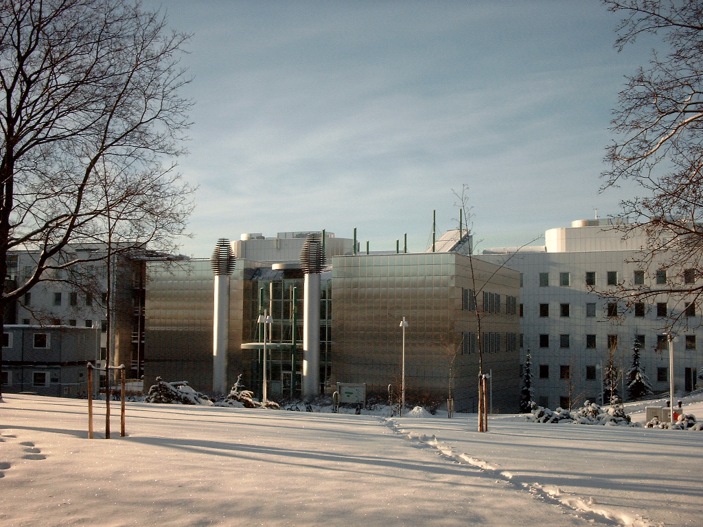 University of Tampere, Pinni Building